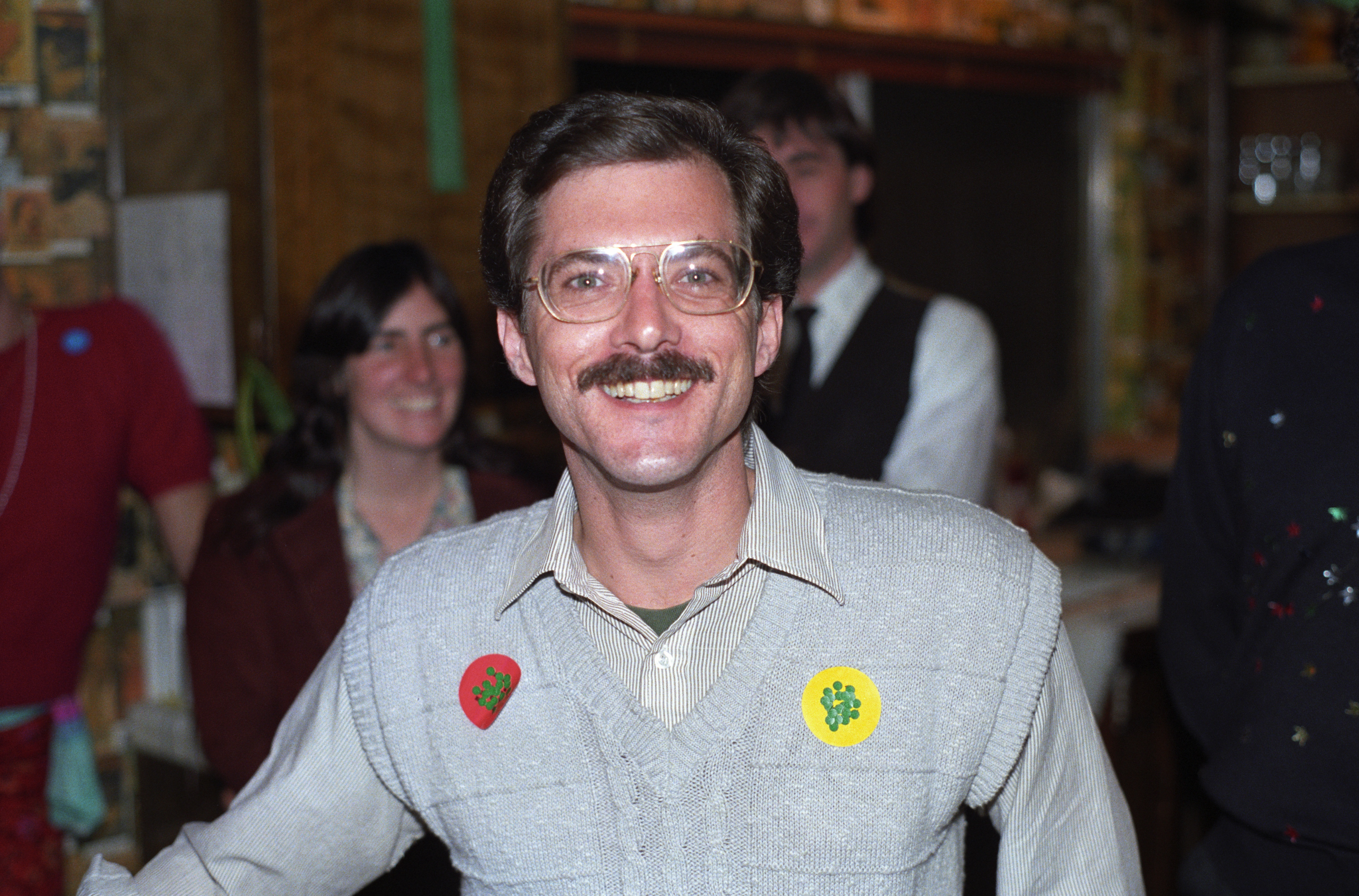 Kevin O'Donnell Jr. on his birthday in 1986, at a surprise party thrown by his wife Kim Tchang.